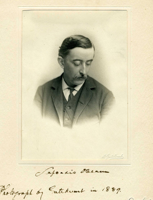 Lafcadio Hearn in 1889